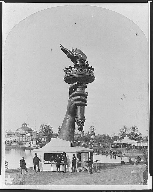 Photograph shows the torch and part of the arm of the Statue of Liberty, on display at the 1876 Centennial Exhibition in Philadelphia. Information booth at base of arm and two persons seen at railing below flame of torch.